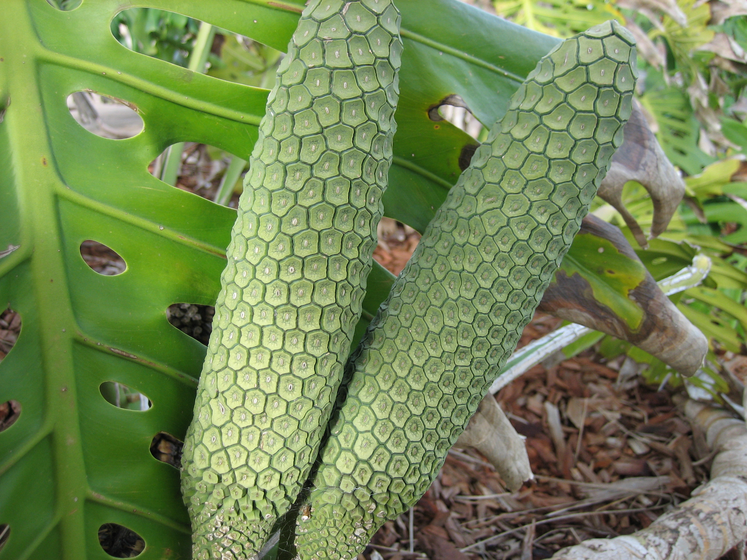 Fruit growing on a Monstera deliciosa with leaf behind it.